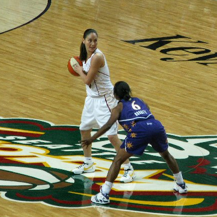 Sunday, September 21st 2008.